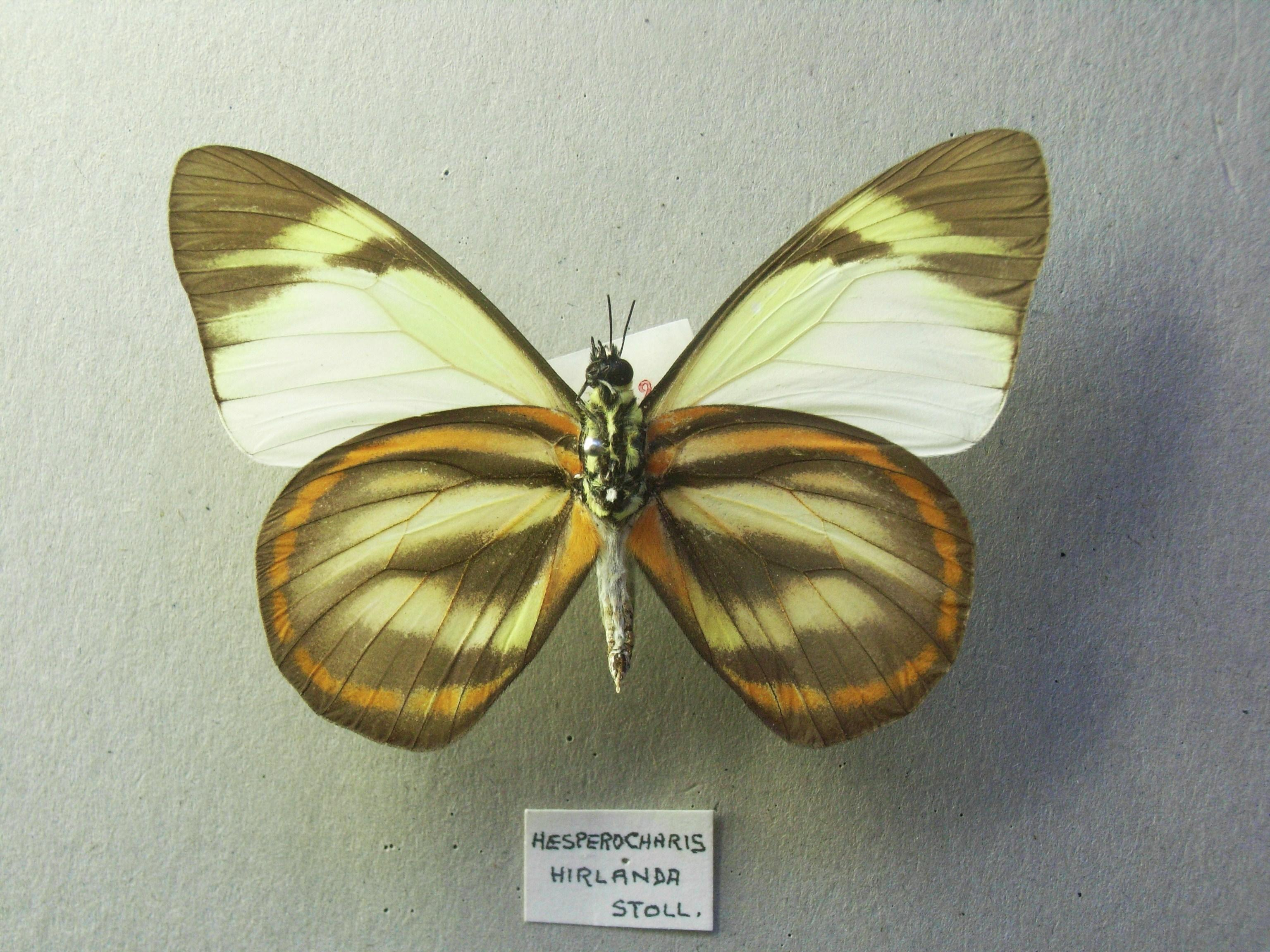 Hesperocharis hirlanda:Pierinae:Pieridae